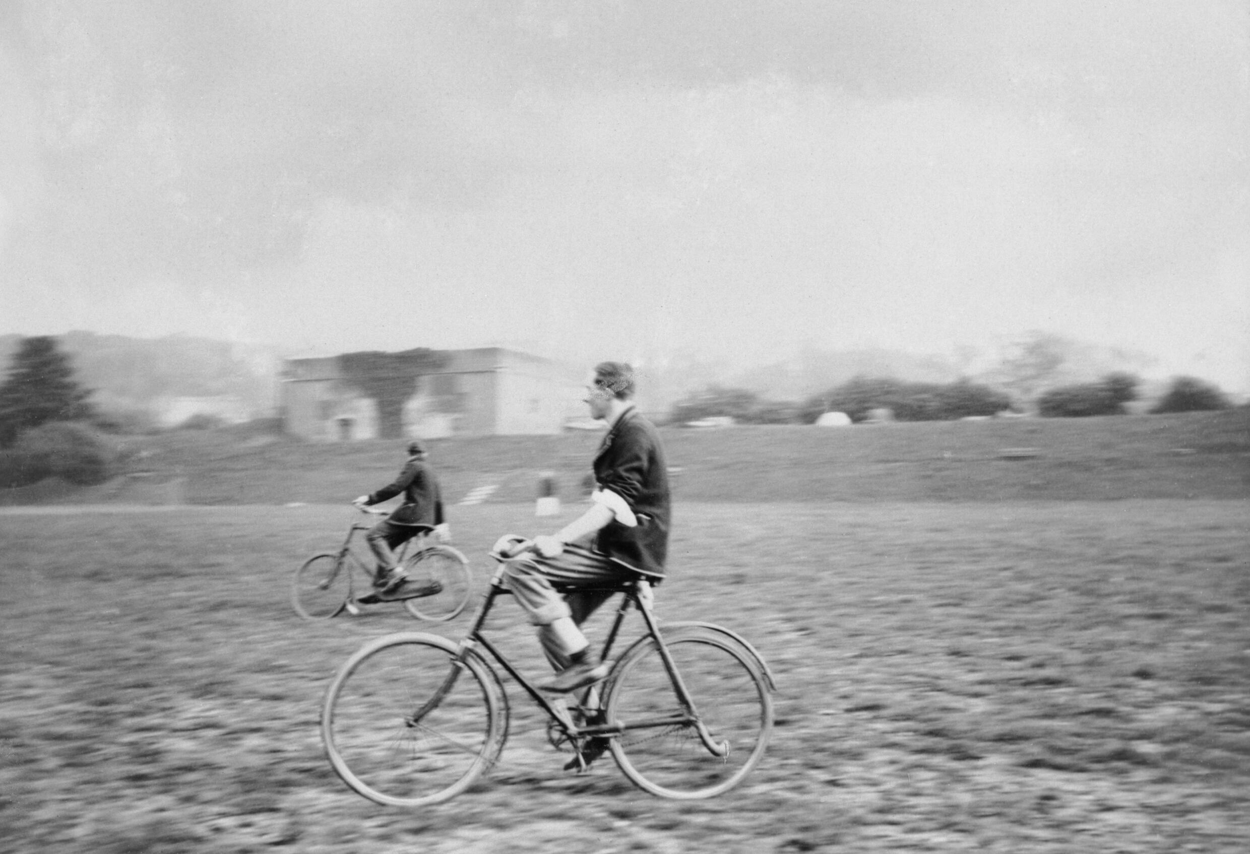 Service of Lieutenant R F T Foljoube With 120th Battery, Royal Field Artillery, 1910-1915 G Messervy and other officers of 120th Battery playing Bicycle Polo at the Royal Artillery Depot, Woolwich before the First World War.